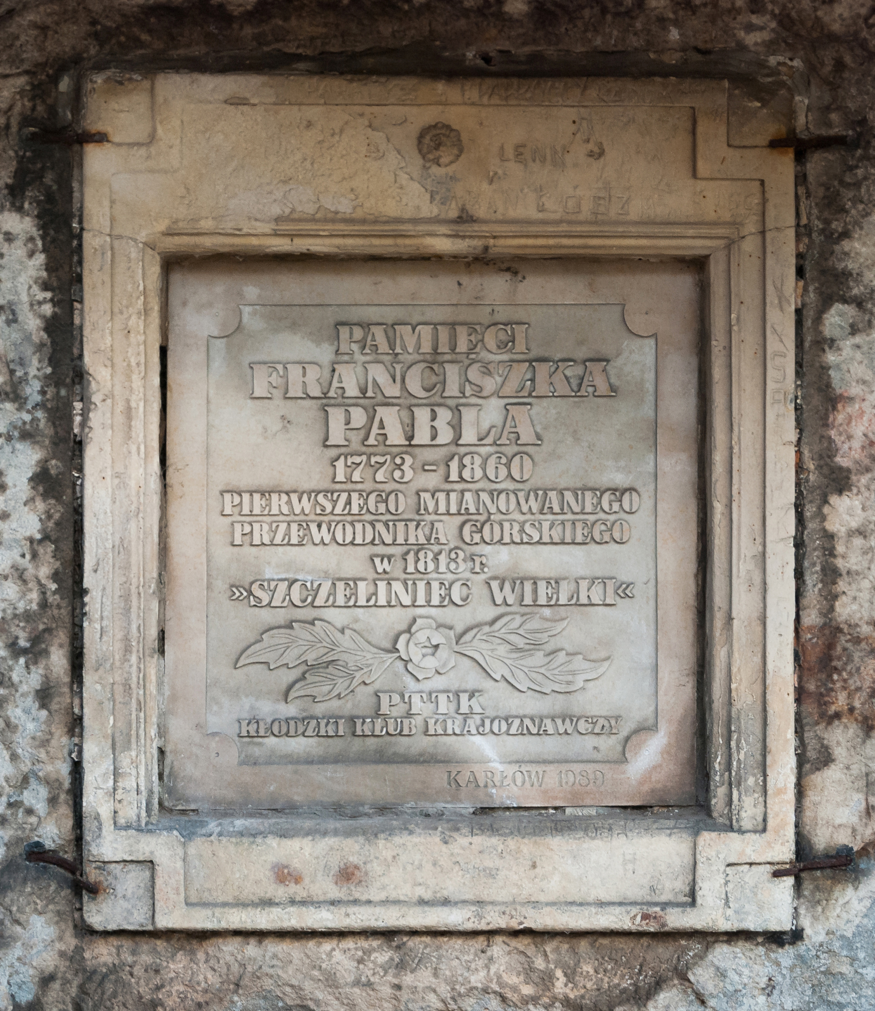 Franz Pabel memorial on the Szczeliniec Wielki